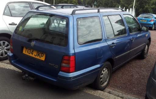 A back of a Volkswagen Golf Variant in Cardiff,United Kingdom